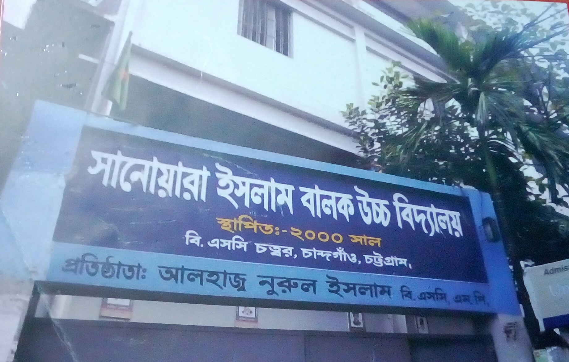 The gate of Sanowara Islam Boys' High School. It is situated at Chittagong City.